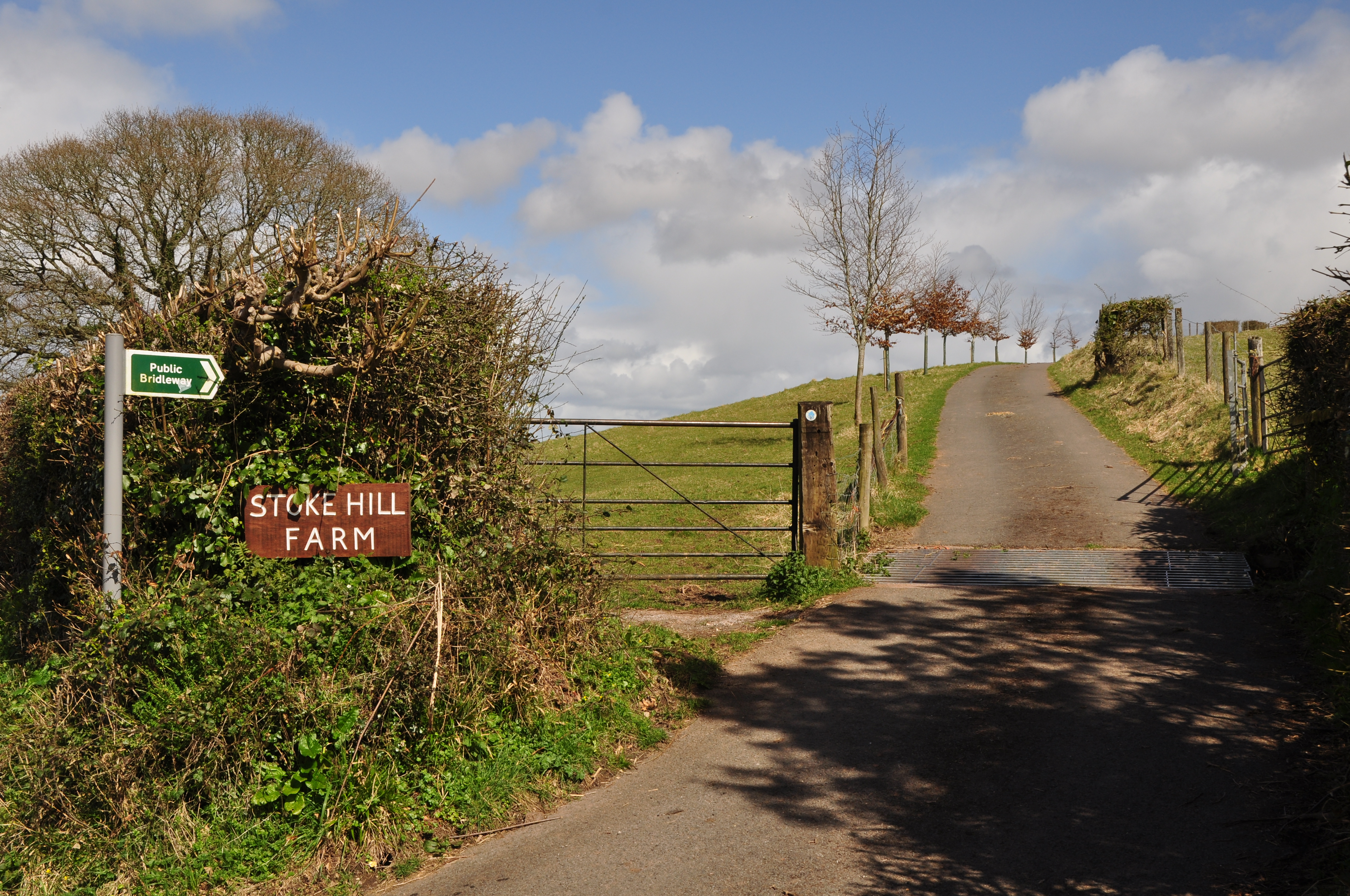 Exeter District : Stoke Hill Farm Track